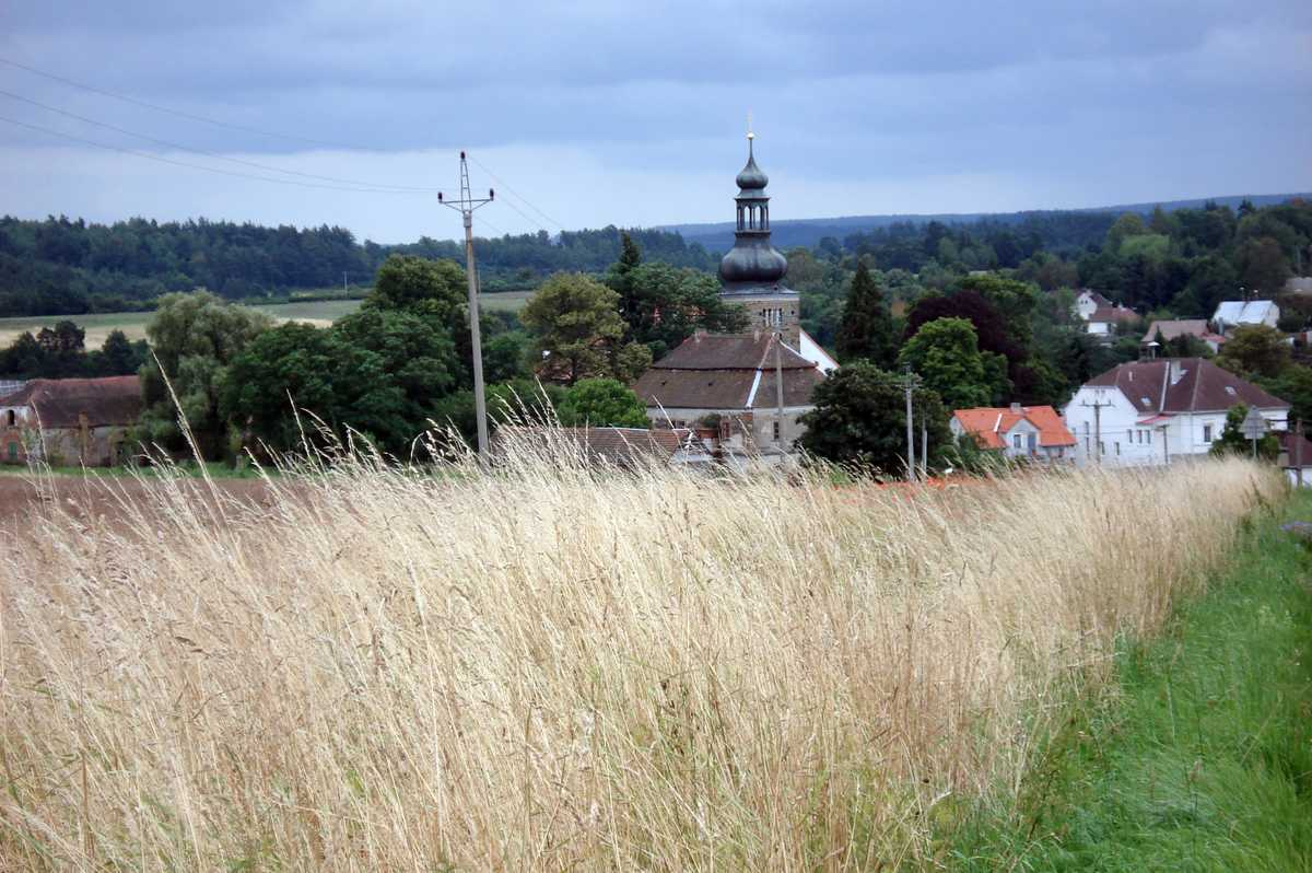 Overwiev of Svojsin.